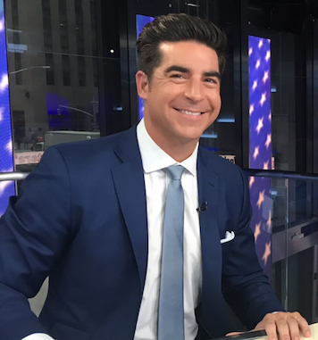 American news commentator Jesse Watters.